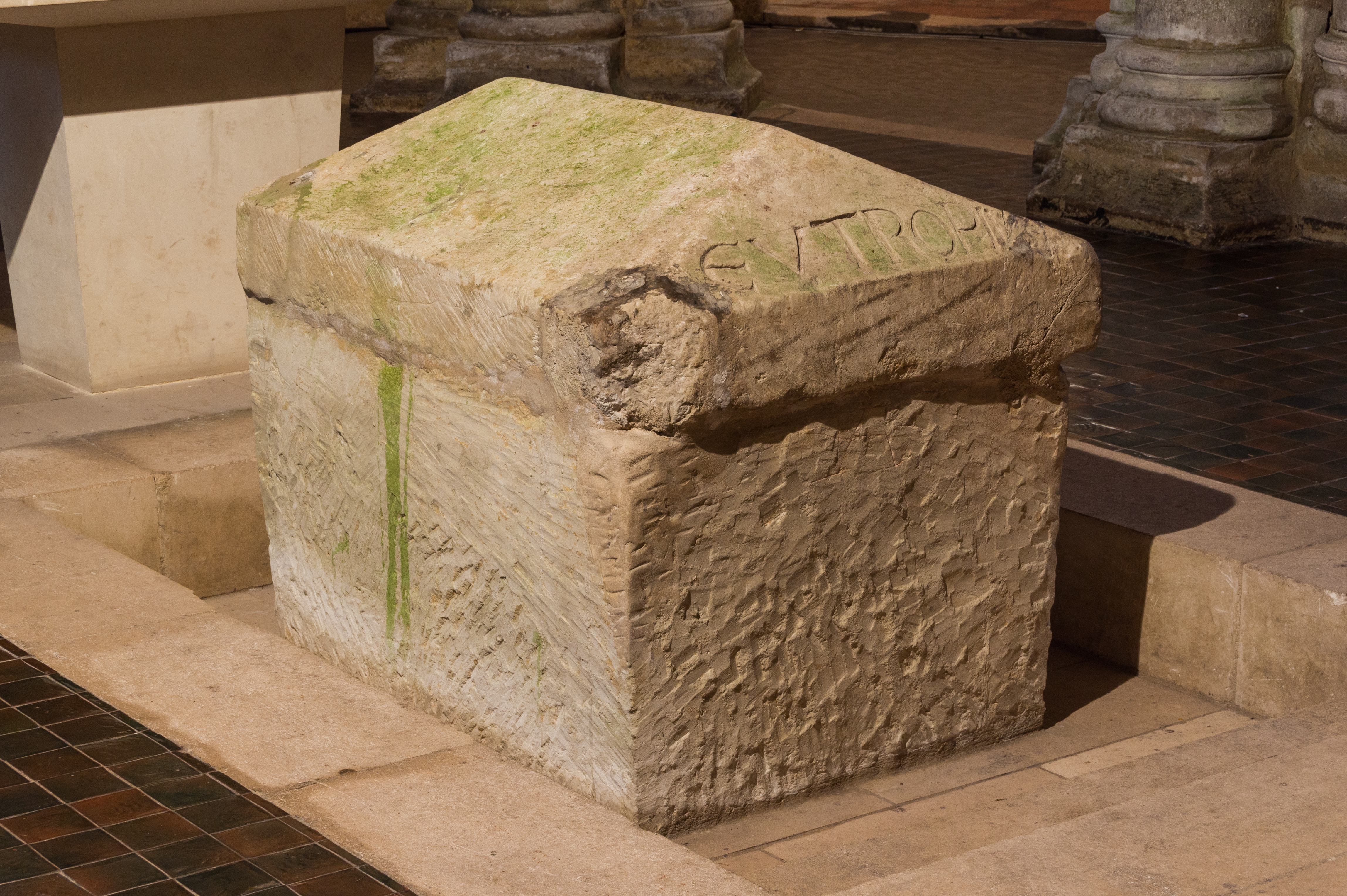 Sarcophagus of Saint Eutropius of Saintes, bishop and martyr, 3rd century. Crypt of the Basilica of Saint Eutropius, Saintes, Charente-Maritime, France.